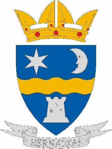 Coat of arms of Hernádkak, Hungary